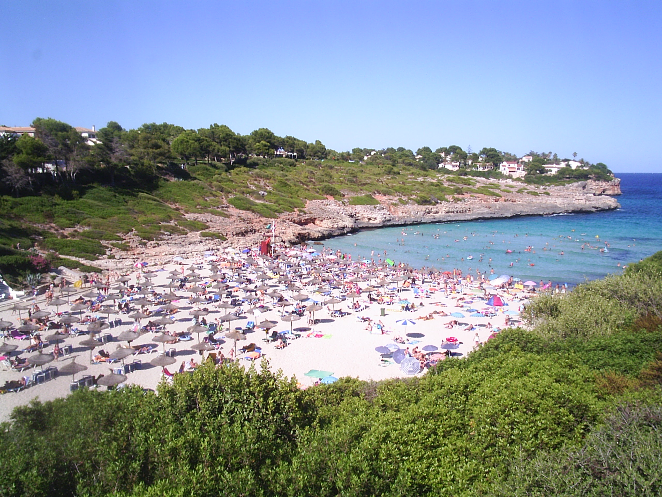 Cala Mendia (or Mandía), a beach in the east of Majorca, near Porto Cristo.